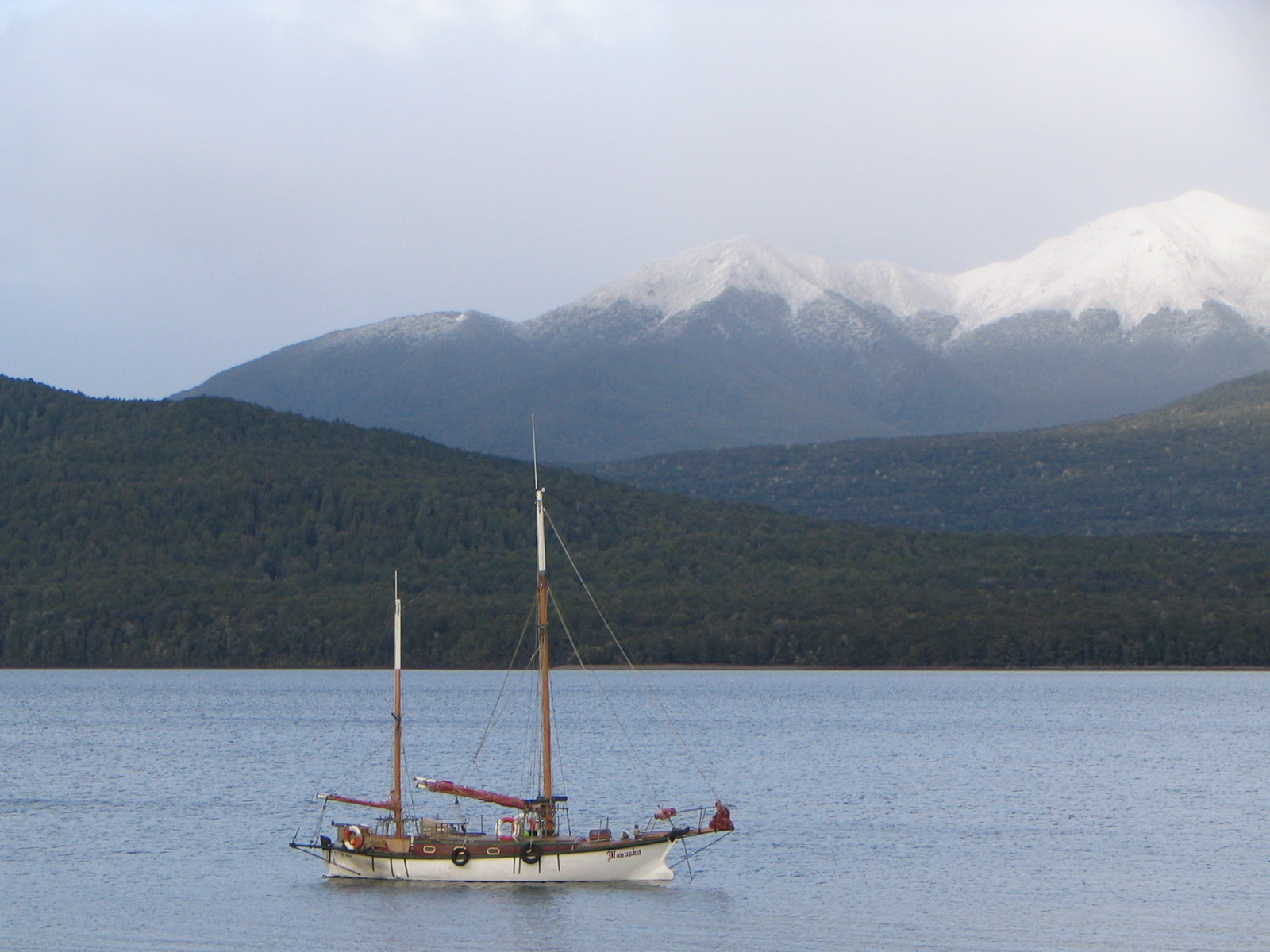 Lake Te Anau